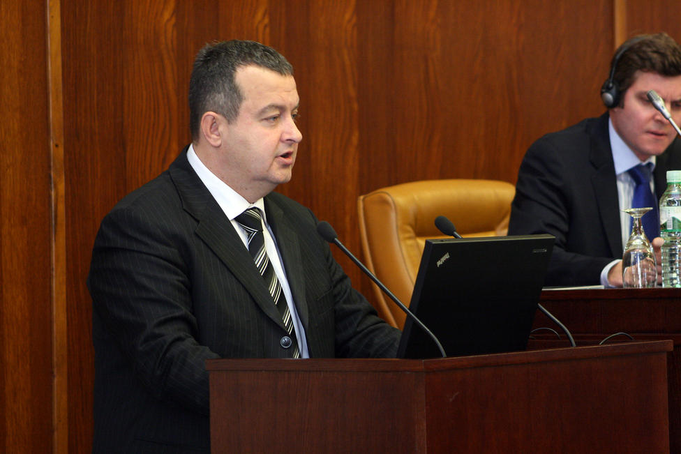 Ivica Dačić